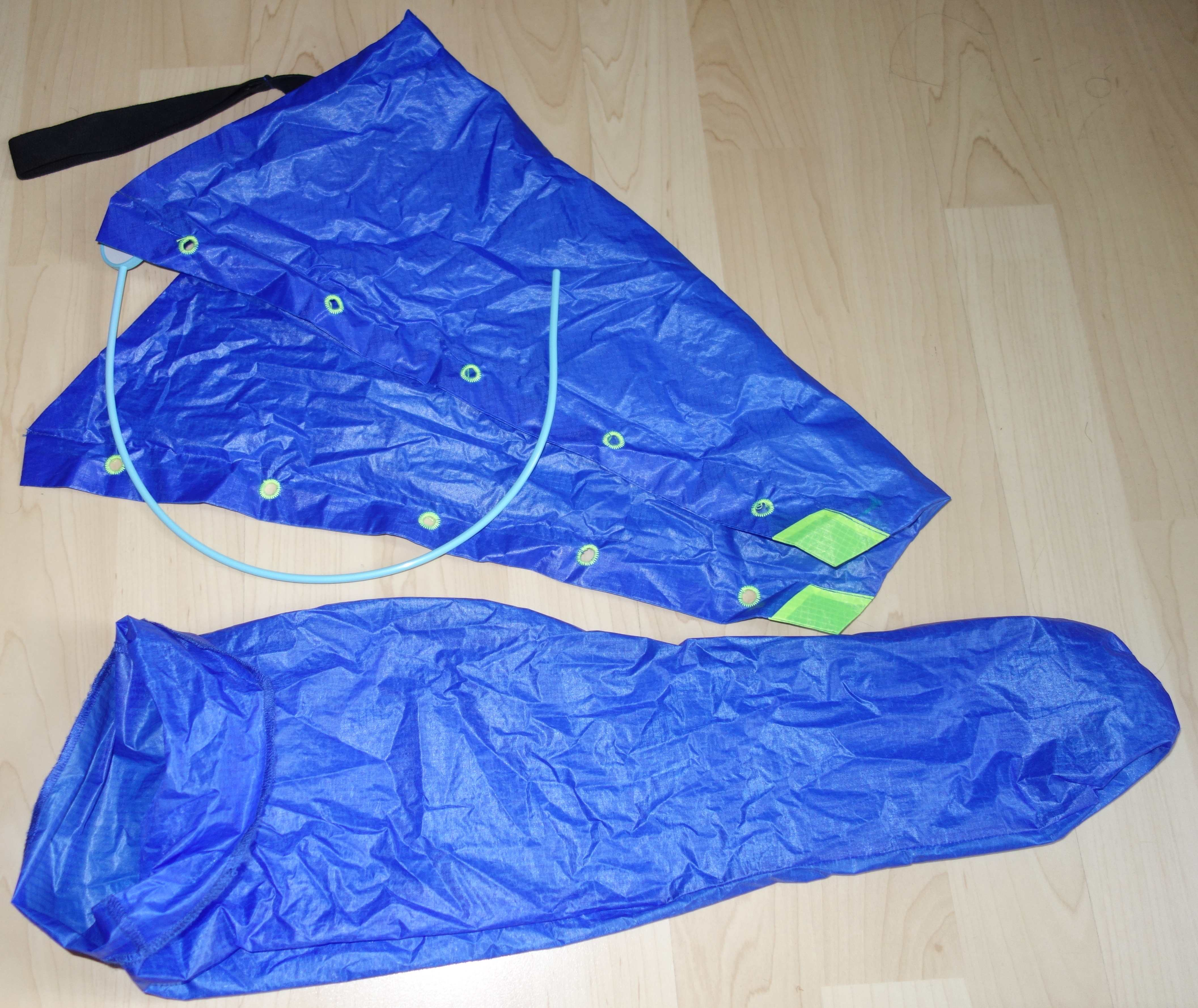 Gliders for Compression therapy